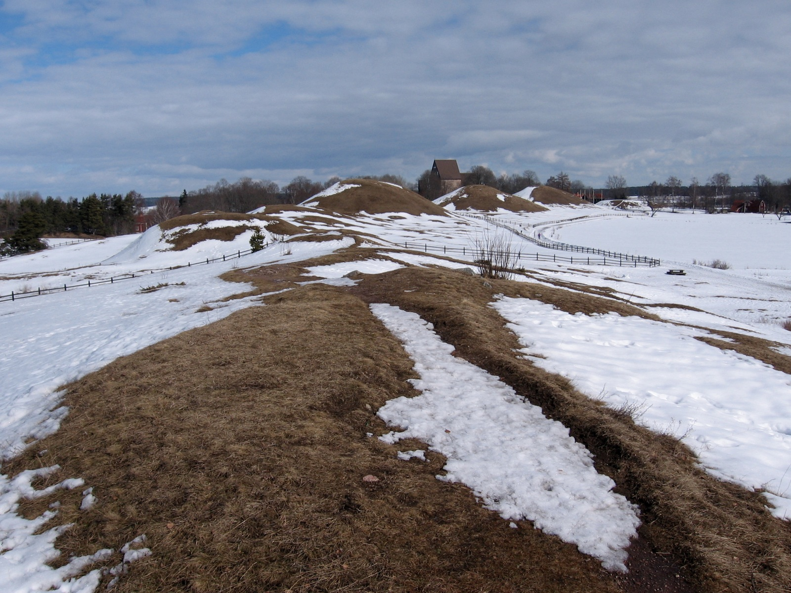 Viking burial mounds in Gamla Uppsala